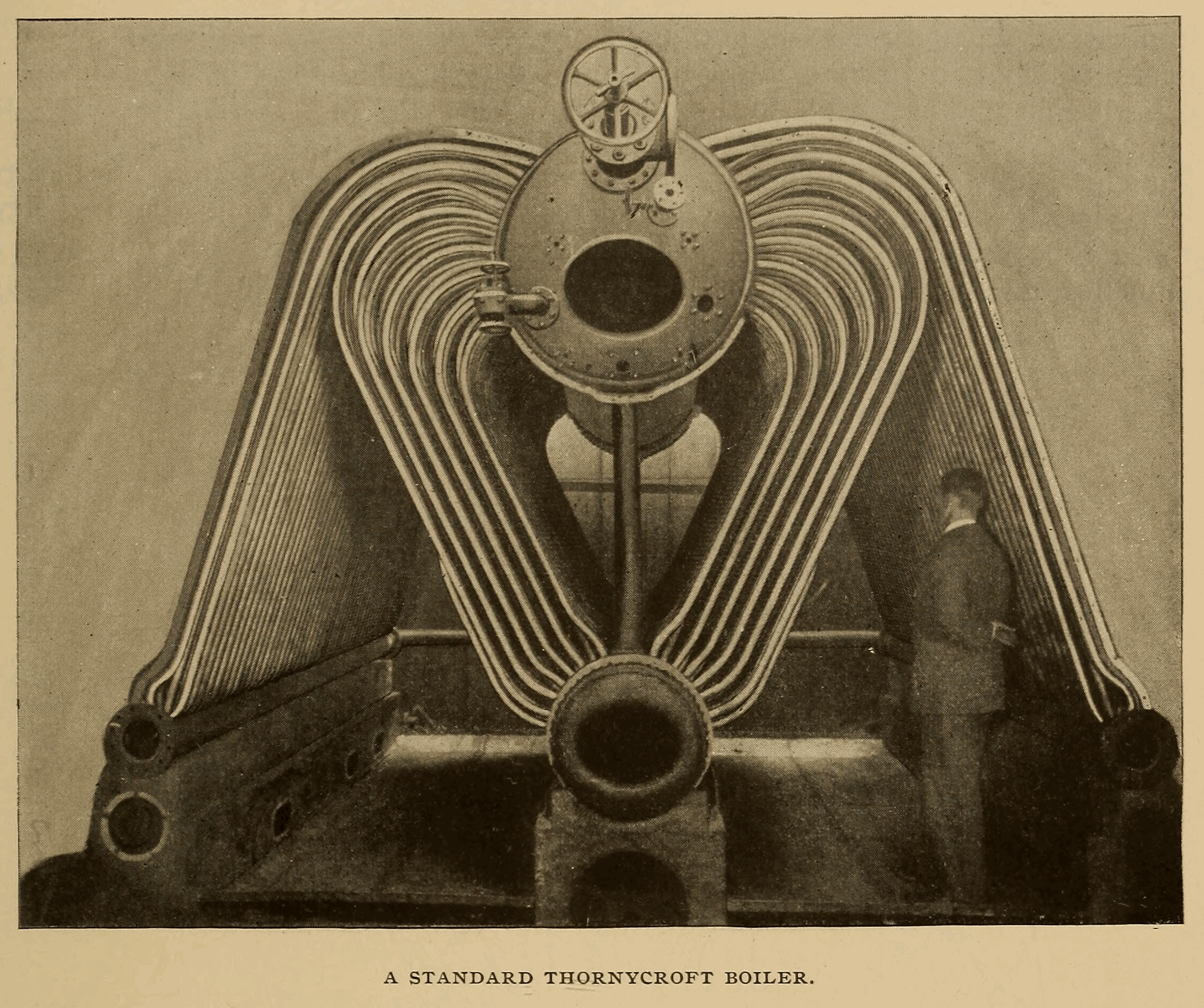 Cassier's Magazine of New York had an article about the British naval architect and shipbuilder John Isaac Thornycroft in Volume IX, 1895-96, page 398-408. It was accompanied by a number of illustrations, including this photo of a Thornycroft watertube boiler, on page 401. The size of the boilers can be gauged by the man standing to the right. File downloaded in jp2 format, cropped by uploader and saved in png format.